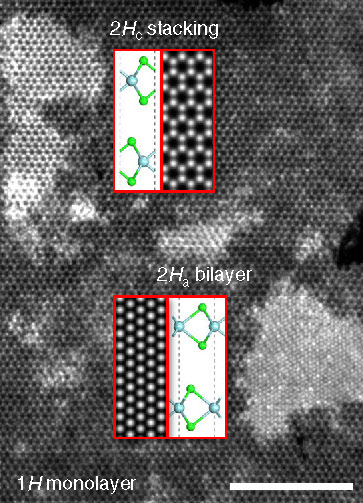 Atomic resolution ADF-STEM image of two bilayer islands in NbSe2, showing the coexistence of 2H a and 2H c stacking sequence. The insets are corresponding atomic models and simulated STEM images